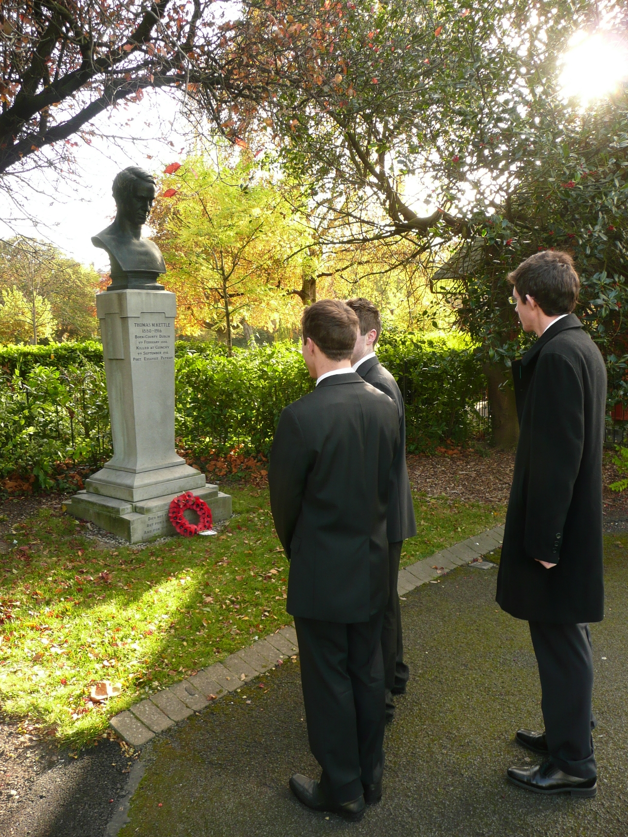 The 153rd session of the Literary and Historical Society UCD at the inception of an annual wreath laying ceremony for fallen auditor Thomas Kettle. Kettle was killed at the Somme, September 1916